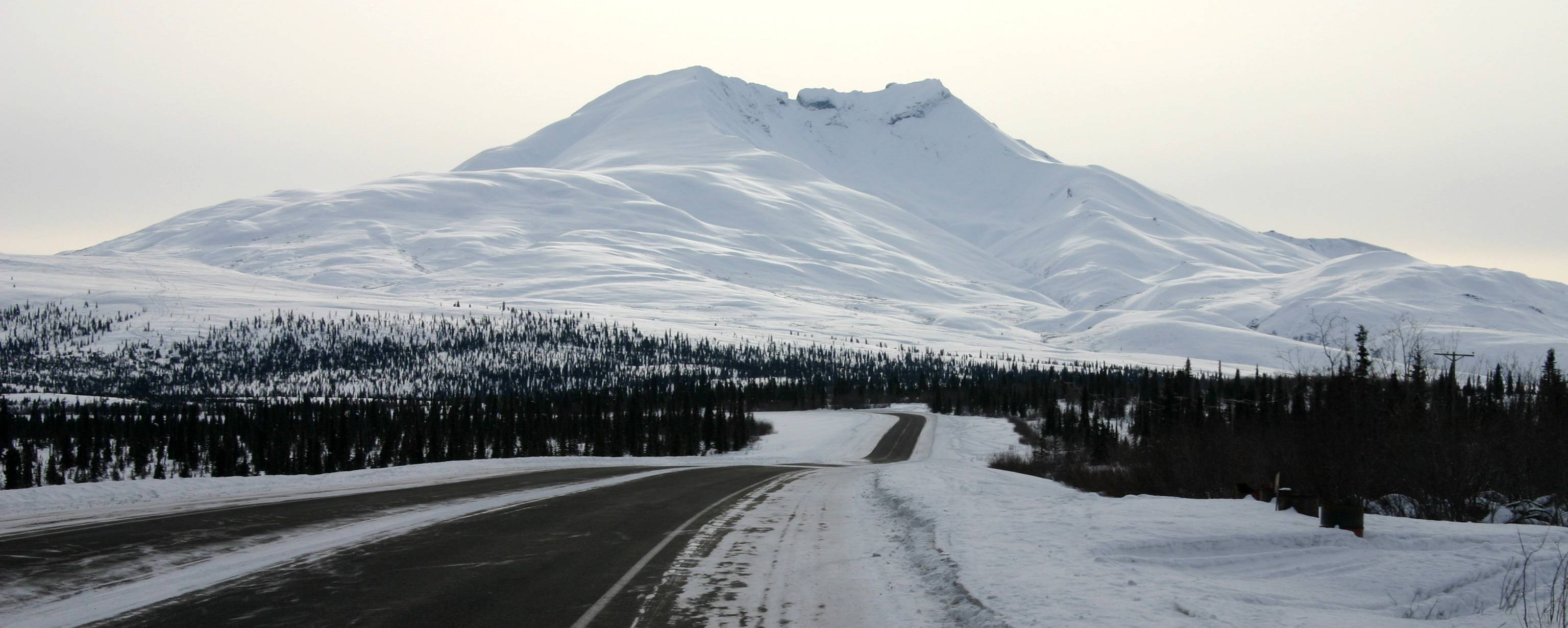 I took these photos on the way back from Fairbanks to Anchorage, Alaska in mid-March 2008. These photos are from the section south of Delta Junction to the Glenallen area.